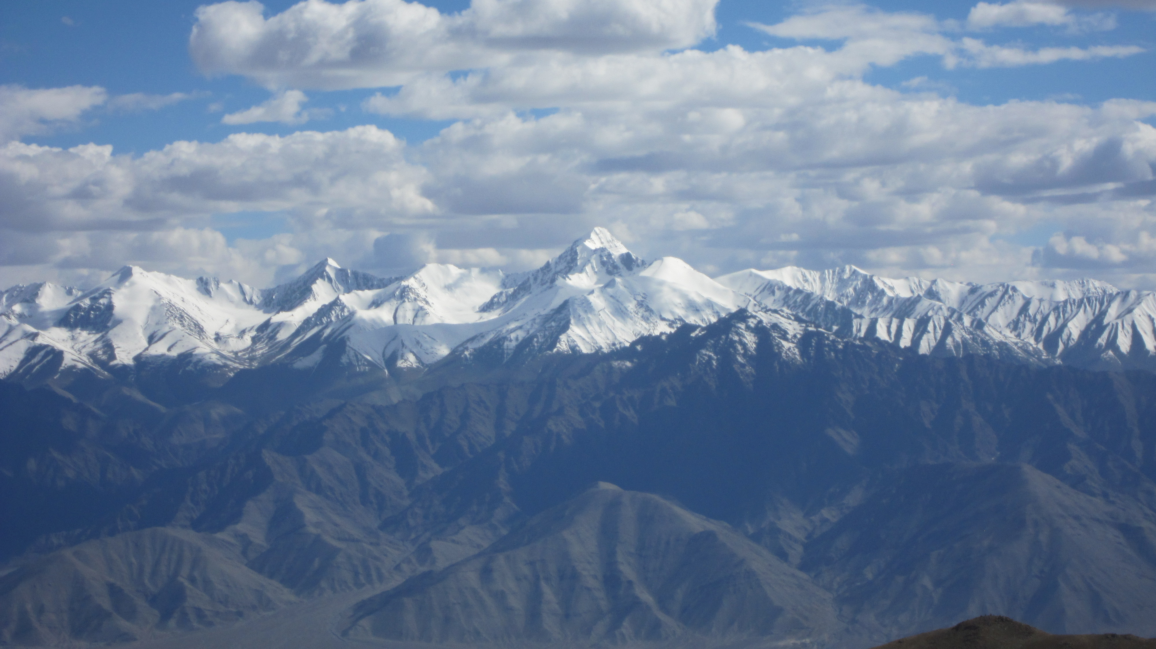 Zanskar range with Stok Kangri